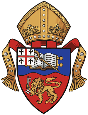 Coat of arms of the Anglican Diocese of Quebec